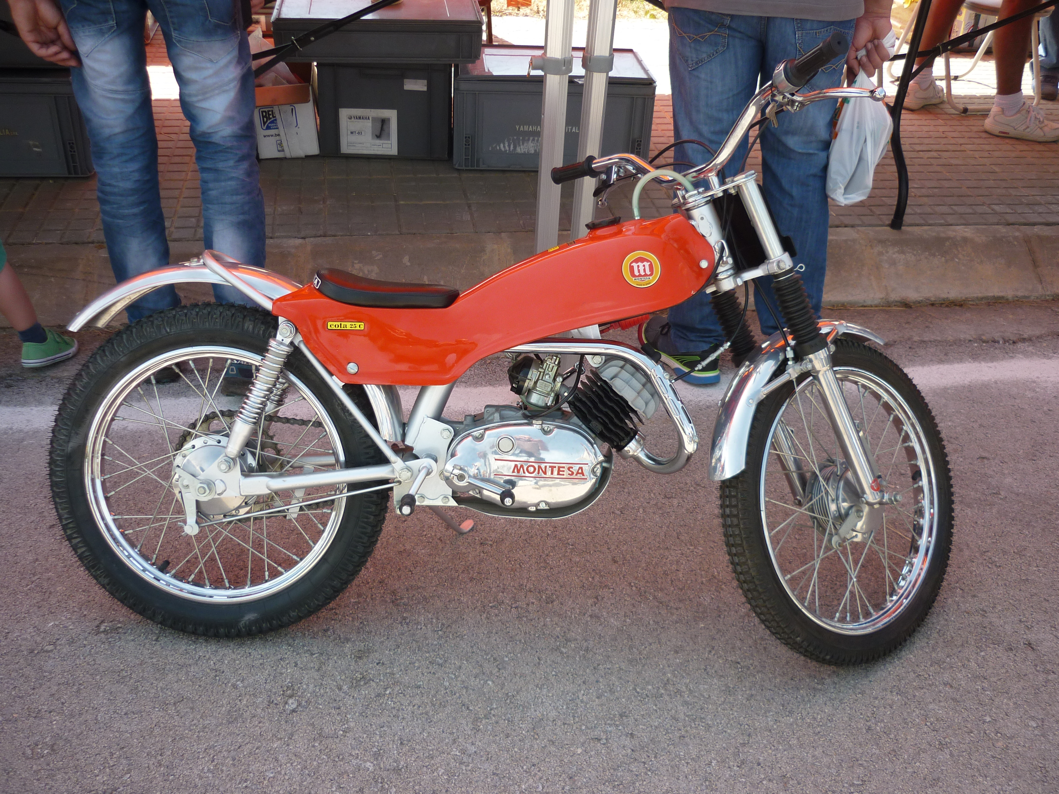 Montesa Cota 25 C, 1974